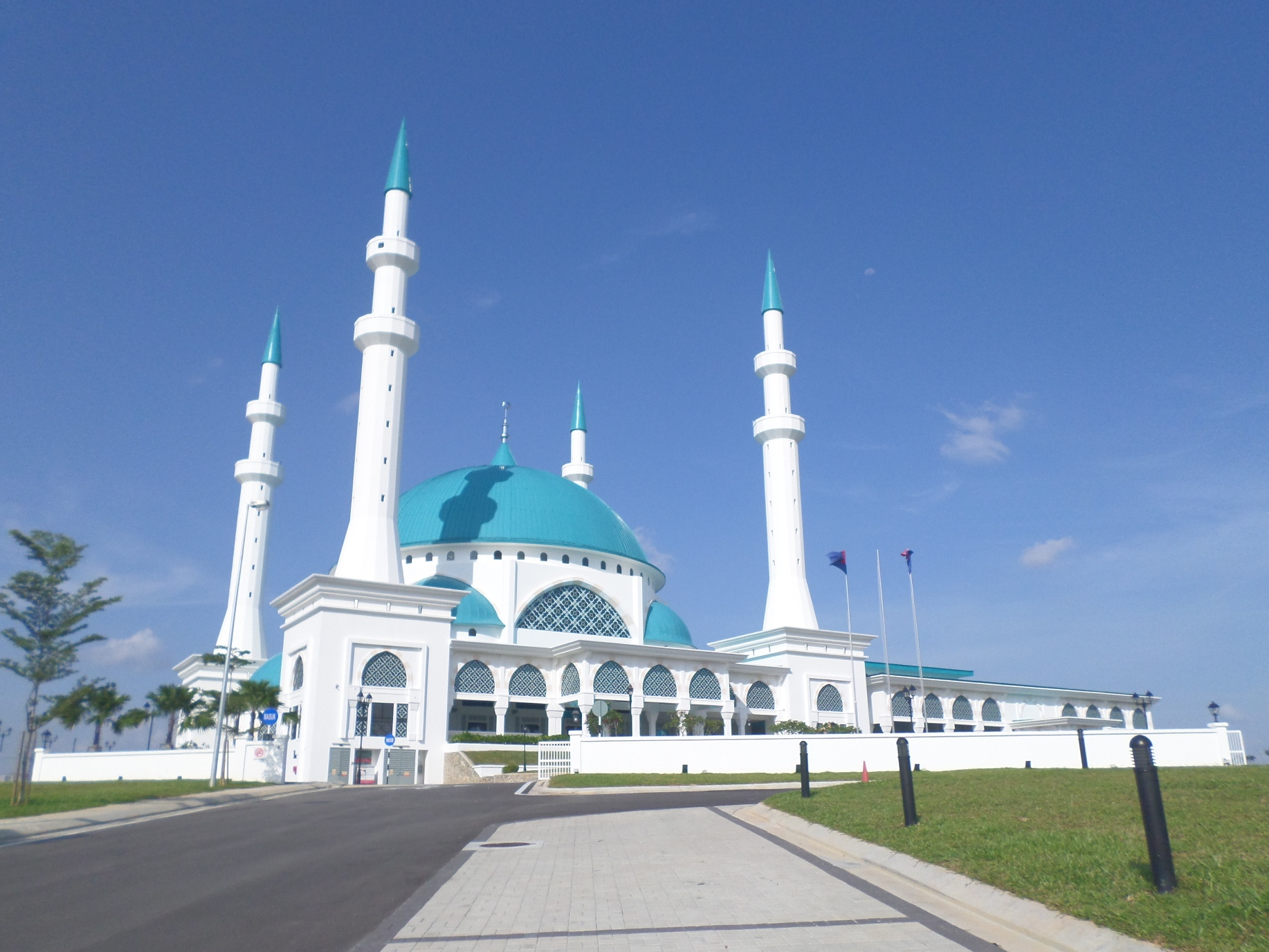 Sultan Iskandar Mosque, Bandar Dato' Onn, Tebrau, Johor Bahru, Johor, Malaysia